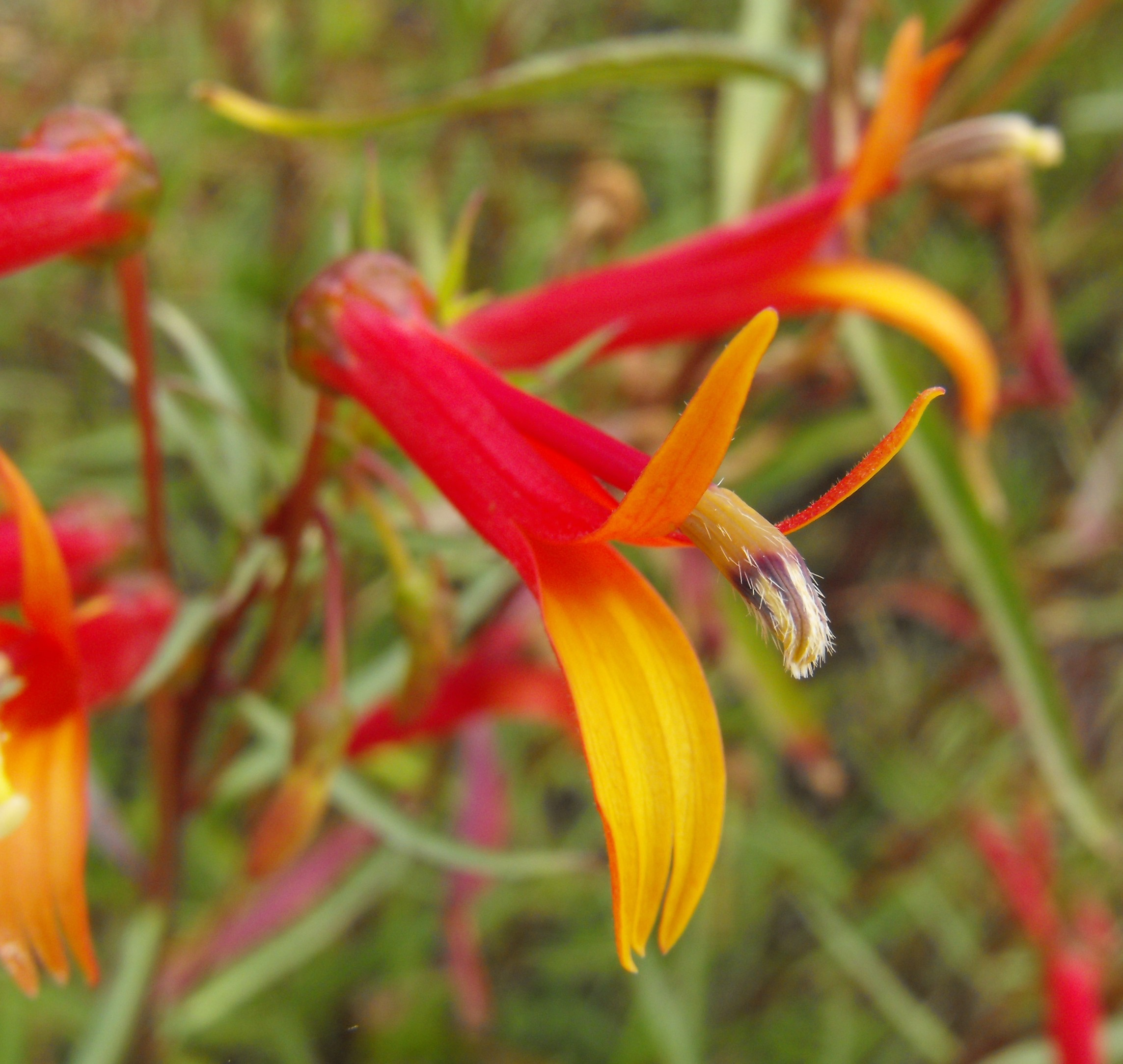 Lobelia laxiflora in the Water Conservation Garden at Cuyamaca College in El Cajon, California, USA. Identified by sign.